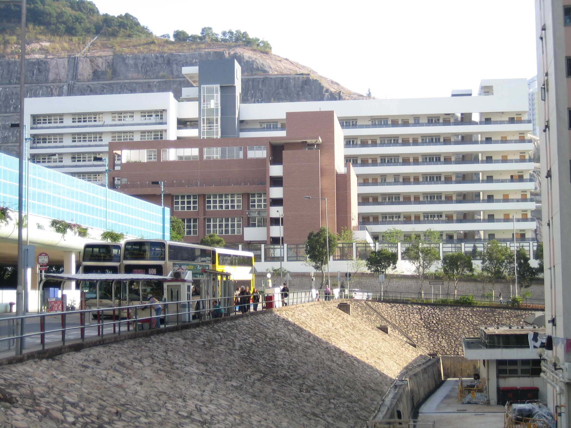 This image is the north view of SJACS new campus which is taken from Fung Shing Street, Hong Kong. If you have any questions about the licensing (like cc-by-sa, GFDL), or you want to republish the image without using the licensing shown as below, you are welcome to leave a message on the User Talk Page of my Chinese Wikipedia account. 中文（香港）: 這照片是從北面拍下聖若瑟英文中學新校舍，拍攝地點是香港九龍豐盛街。 如你對這照片版權許可協議 (例cc-by-sa, GFDL) 有疑問，或你想把照片不用以下的版權協議轉載，歡迎你到我在中文維基百科的用戶對話頁留言。